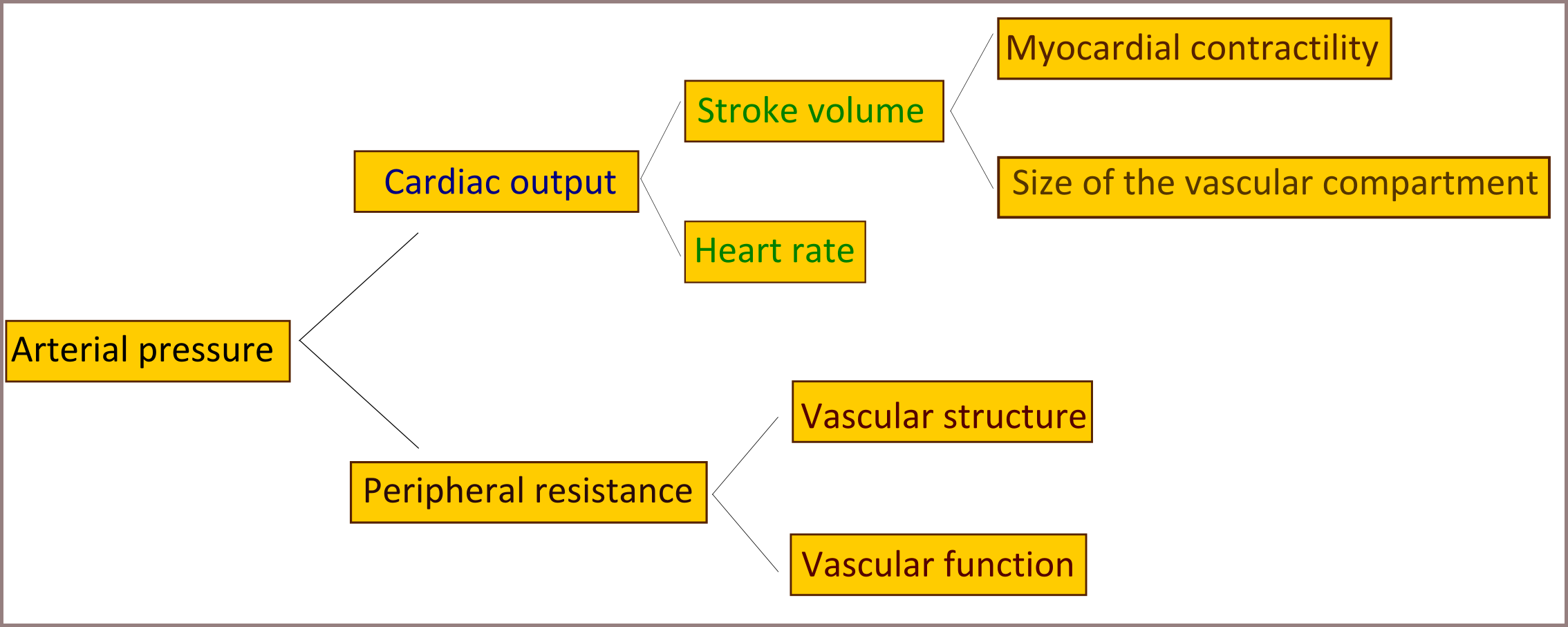 diagram explaining the physiology of arterial pressure